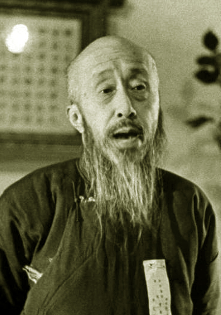 Shen Junru, Chinese scholar and politician.